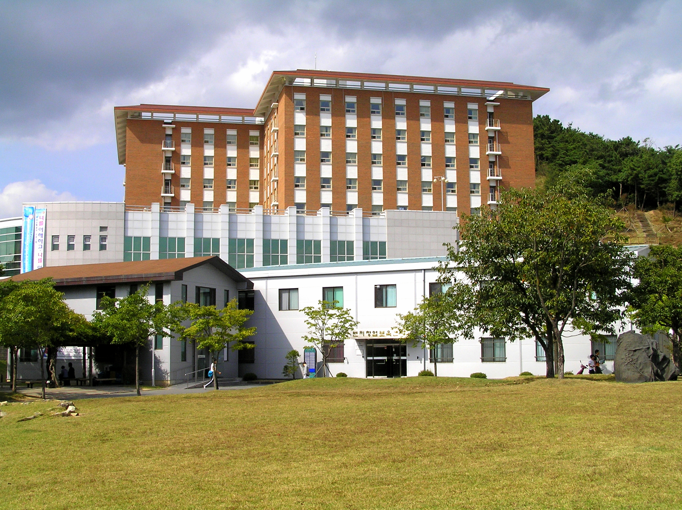 The building of the new dormitory in Dongguk University, Gyeongju